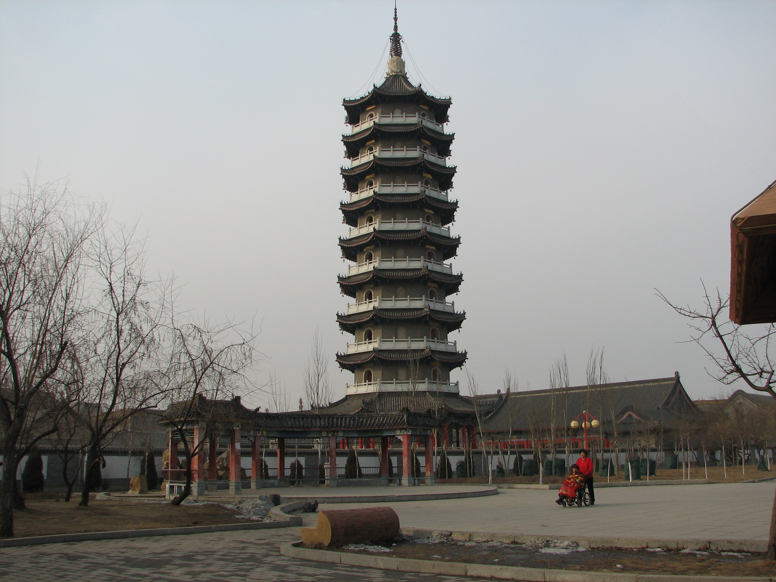 Buddhist temple of Yingkou photographed from the south.